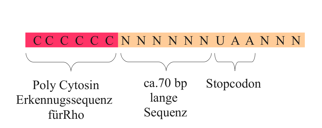 rho dependent Terminator